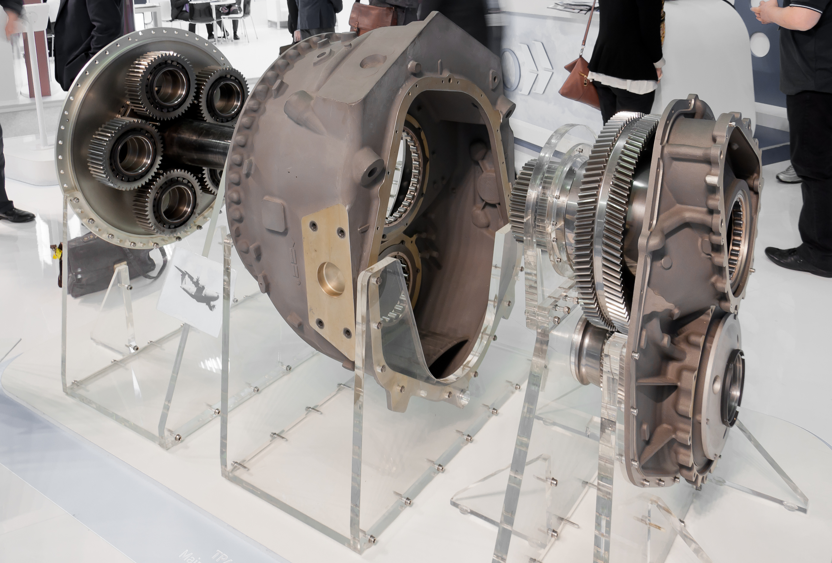 TP400-D6 PDB main propeller gearbox of a Europrop TP400 turboprop engine of the Airbus A400M.